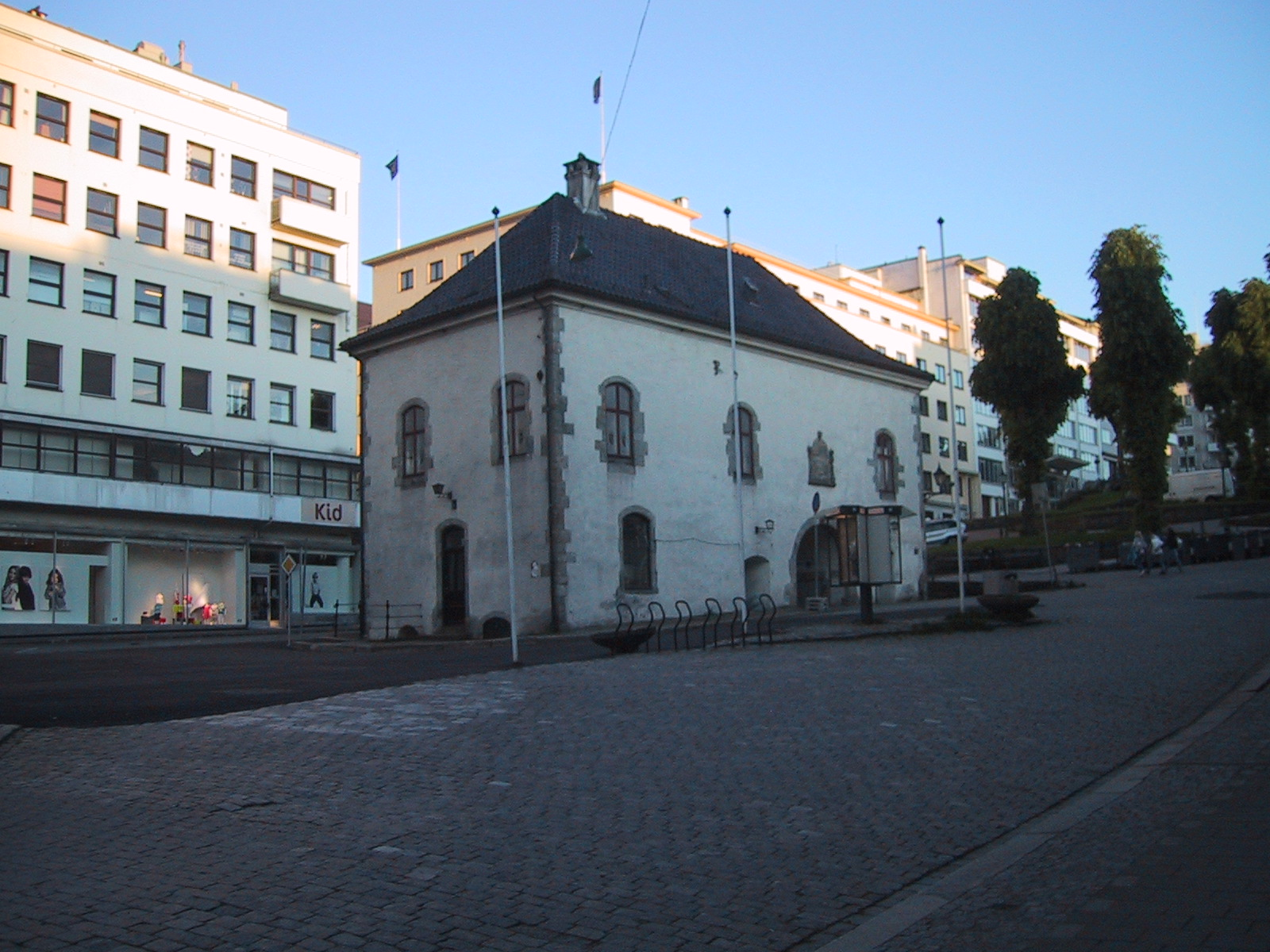 Muren in Bergen